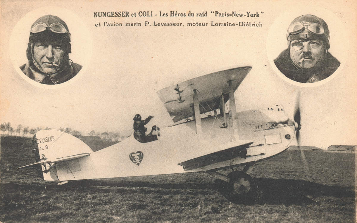 Post card of the White Bird, a French biplane which disappeared in 1927, during an attempt to make the first non-stop transatlantic flight between Paris and New York. The aircraft was flown by French aviation World War I heroes Charles Nungesser and Francois Coli